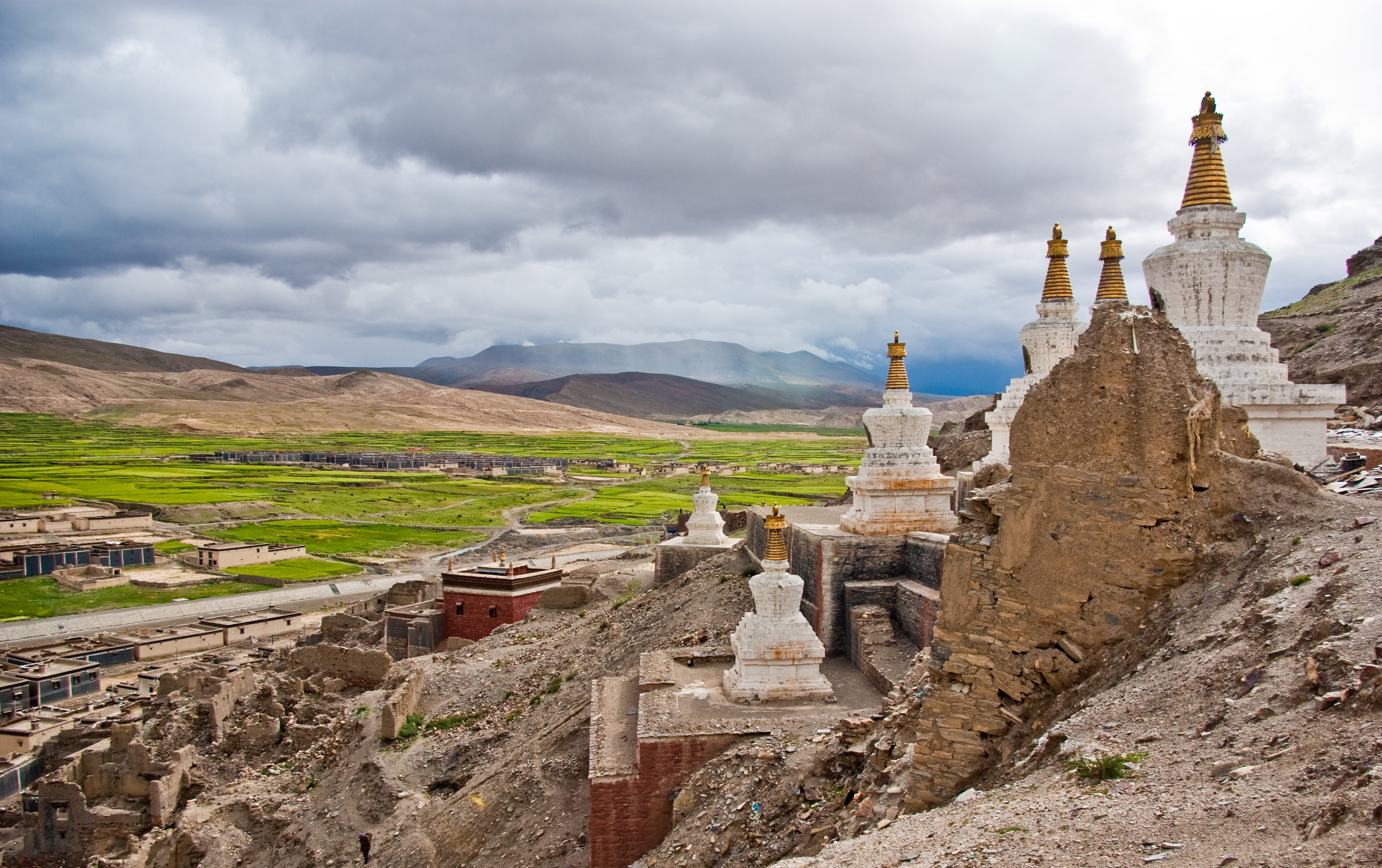 sakya monastery